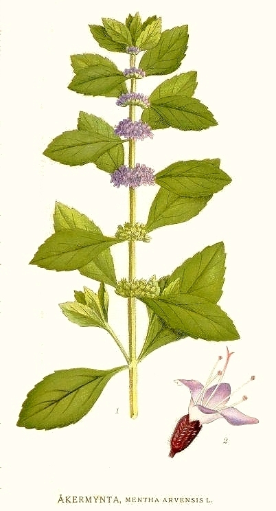 Original Description Åkermynta, Mentha arvensis L.